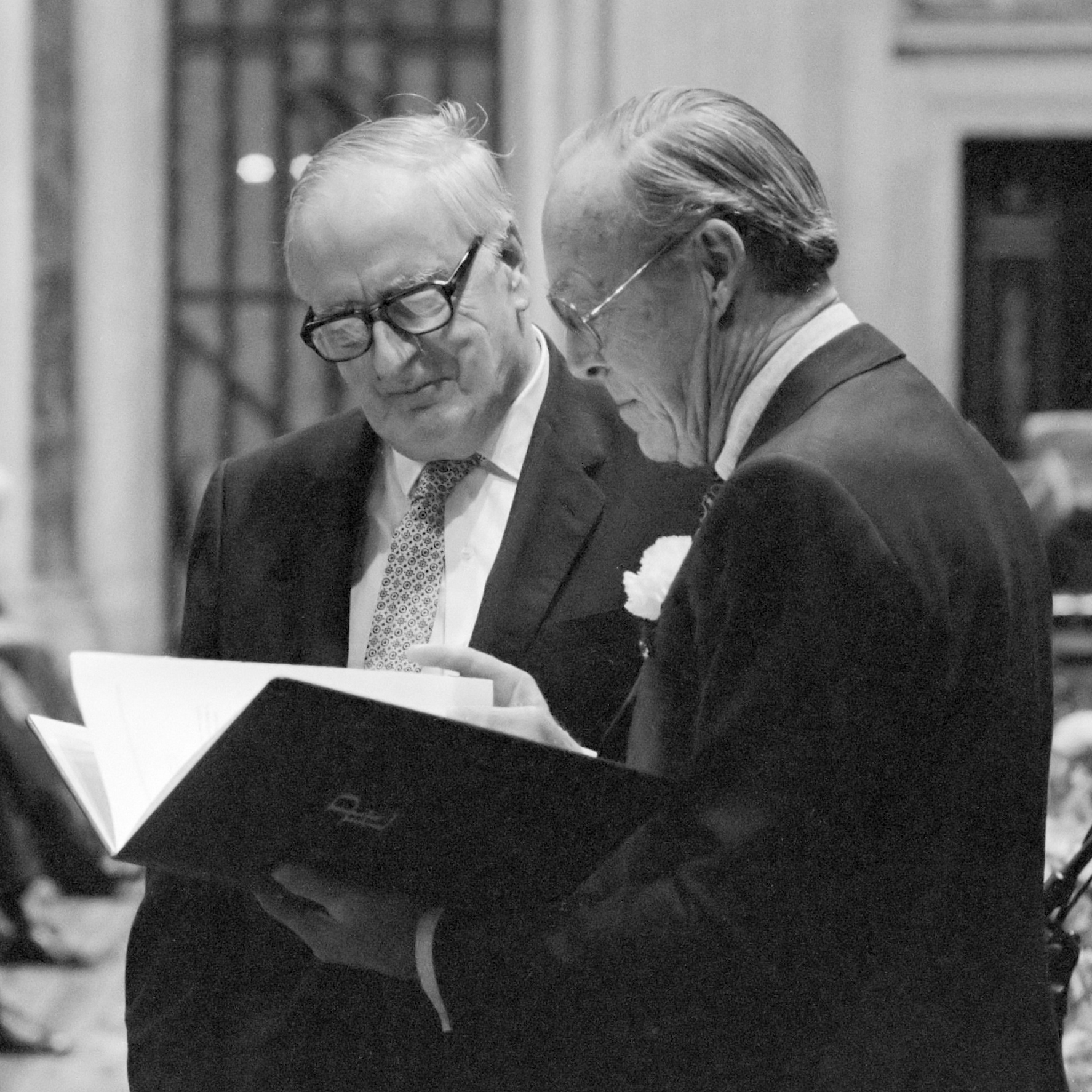 Prince Bernhard awards the Erasmus Prize to Alexander King